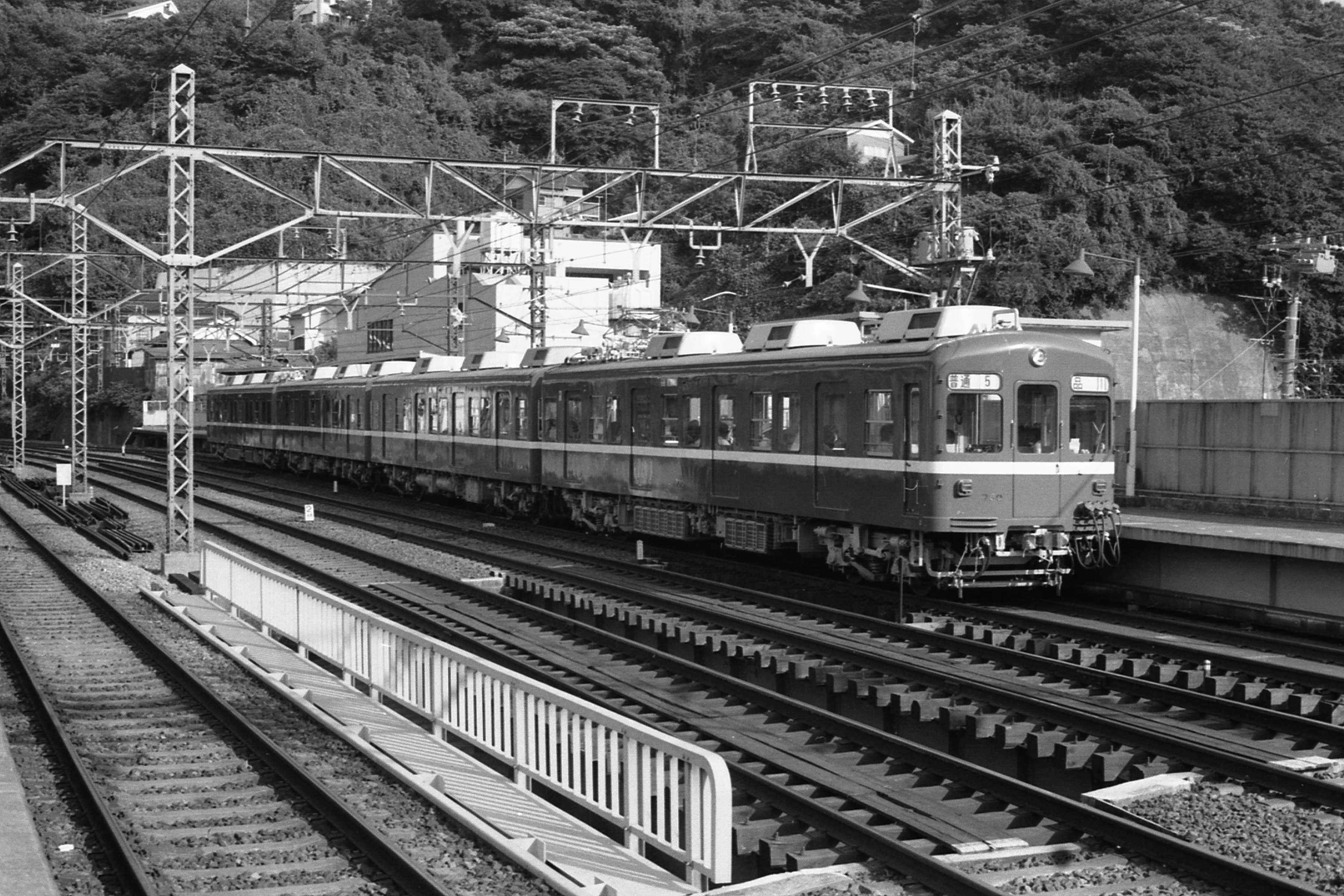 Keikyu unit 729 just after its refurbishment. Taken at Hemi statiom